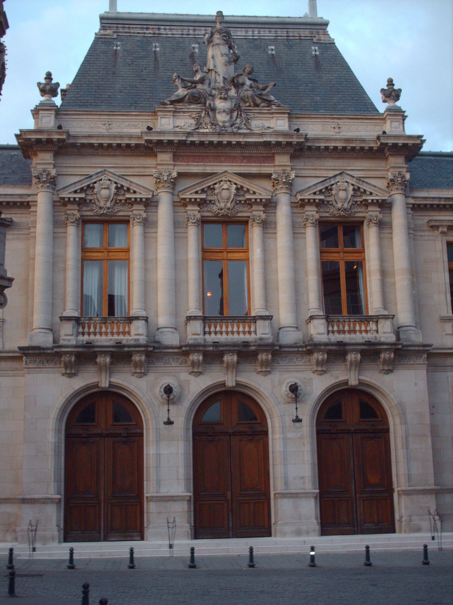 The facade of the Ensemble Poirel in Nancy, Meurthe-et-Moselle, France.